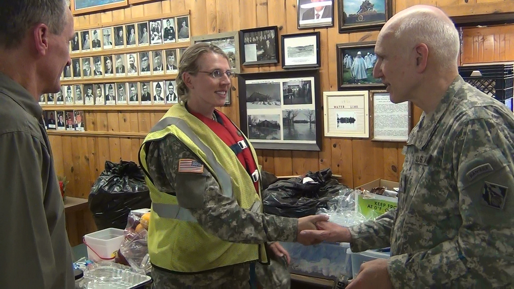 South Dakota Gov. Dennis Daugaard watches as Maj. Gen. William Grisoli presents Capt. Jeri Foshiem of the South Dakota National Guard with a commander's coin for her leadership efforts on monitoring levees in Pierre and Fort Pierre, S.D.